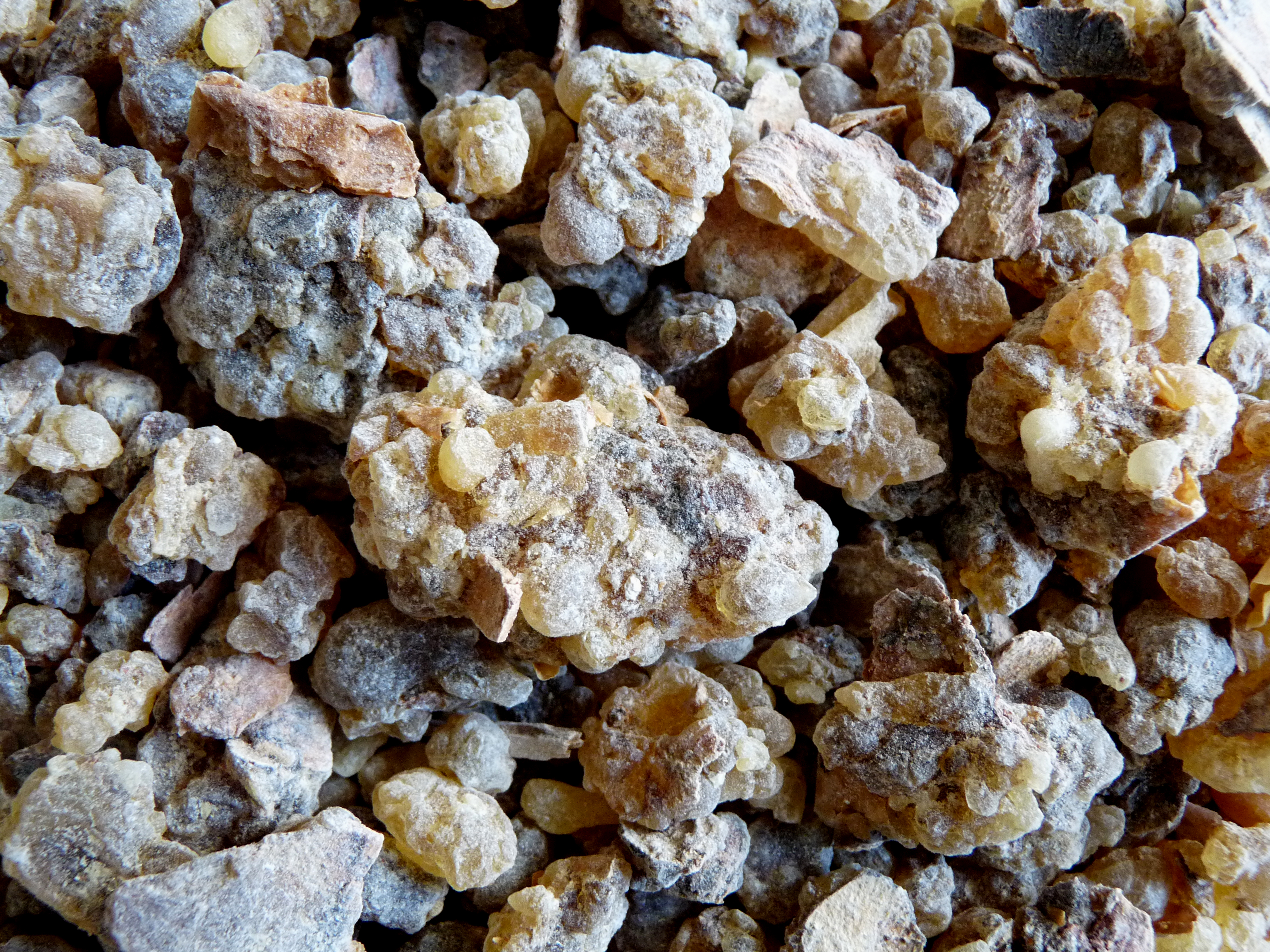 Incense from Oman